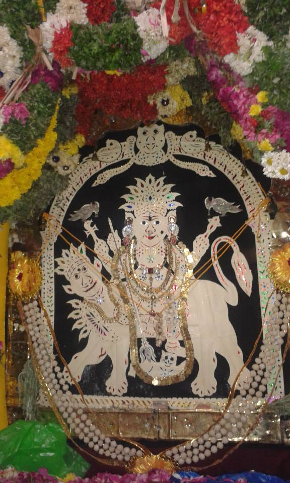 குழுந்தலாயி அம்மன்,ஓலைப்பிடாரி